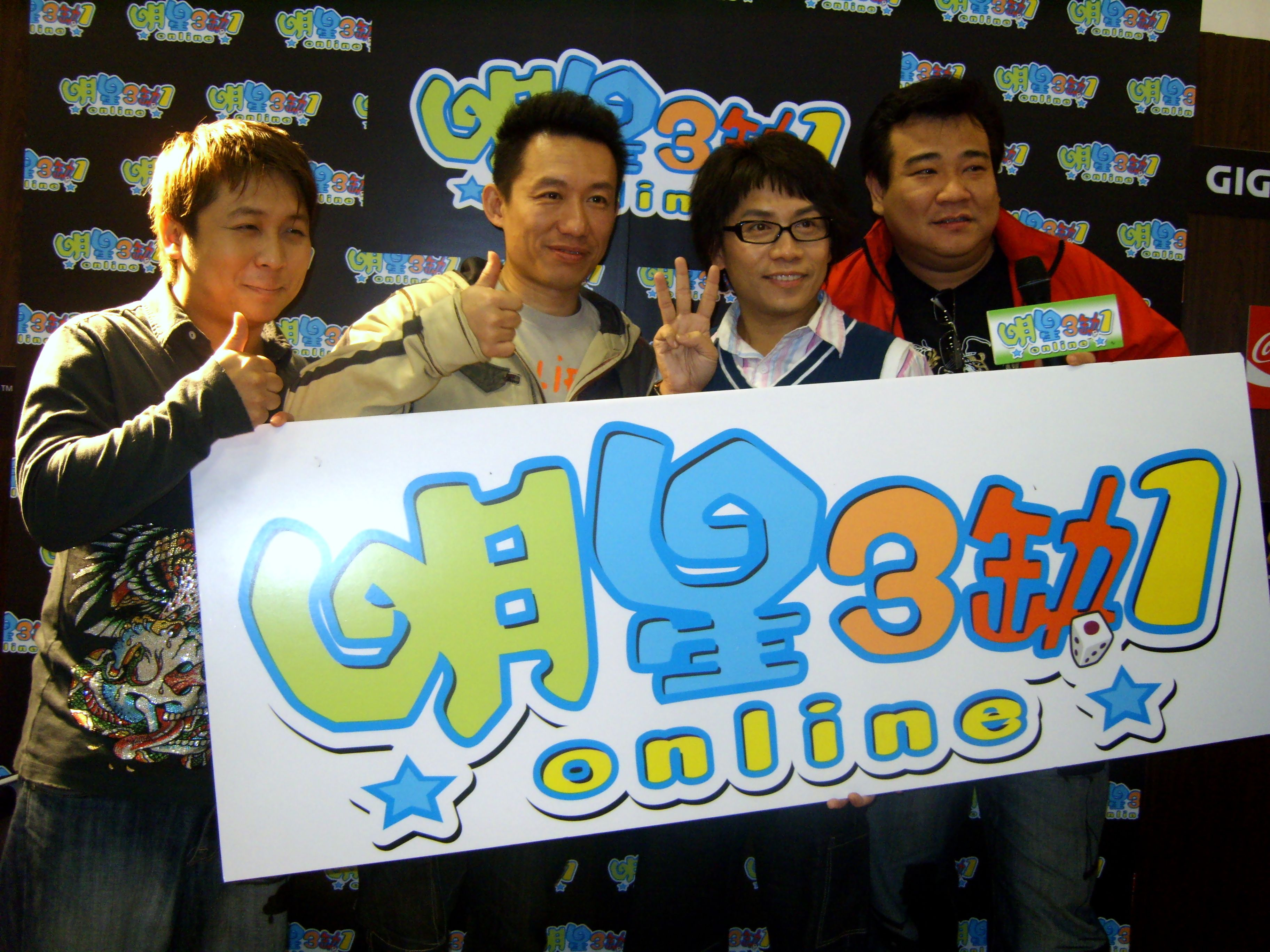 2008 Taipei Game Show: Guests (Yu-chih Lin, Tze-chien Kuo, Chieh-hui Hsu, Yun Pai) at IGS Star 31 Online special.